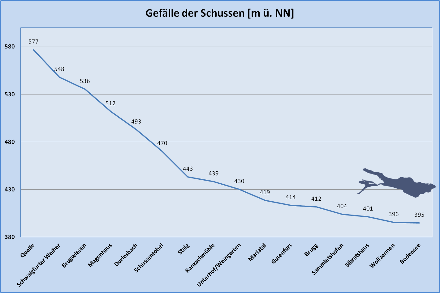 Germany - Baden-Württemberg: diagram 'altitude of river Schussen'